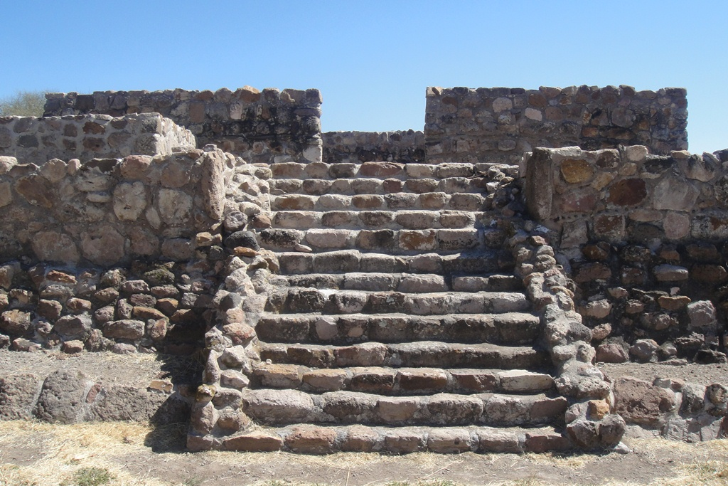 Template:Huandacareo, Main Structure, temple west view